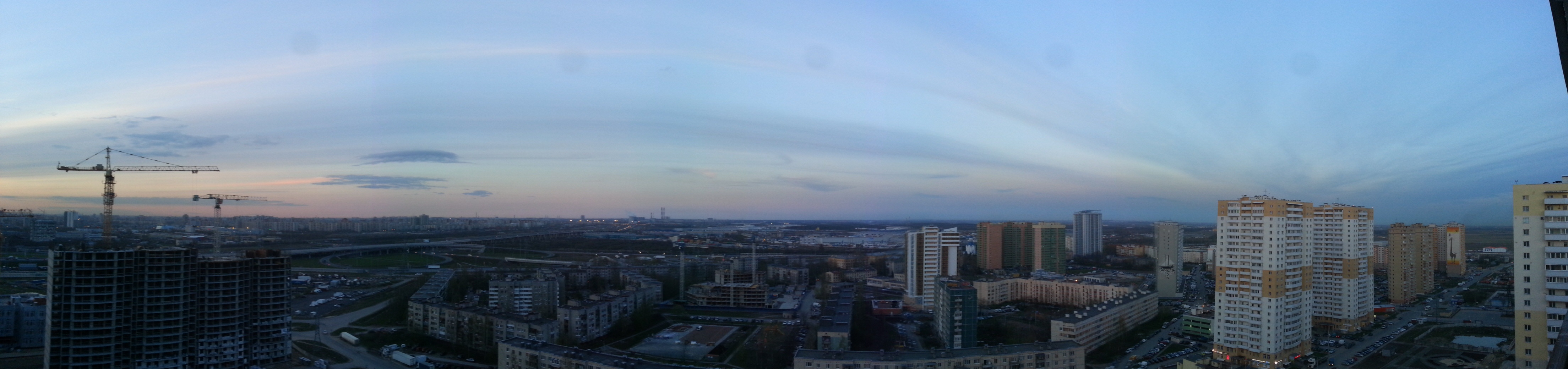 shushary suosaari